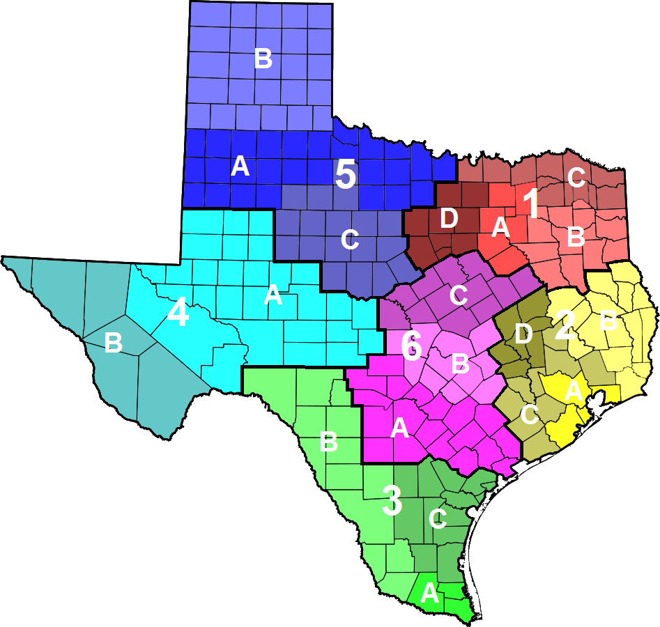 Texas Highway Patrol divisions map